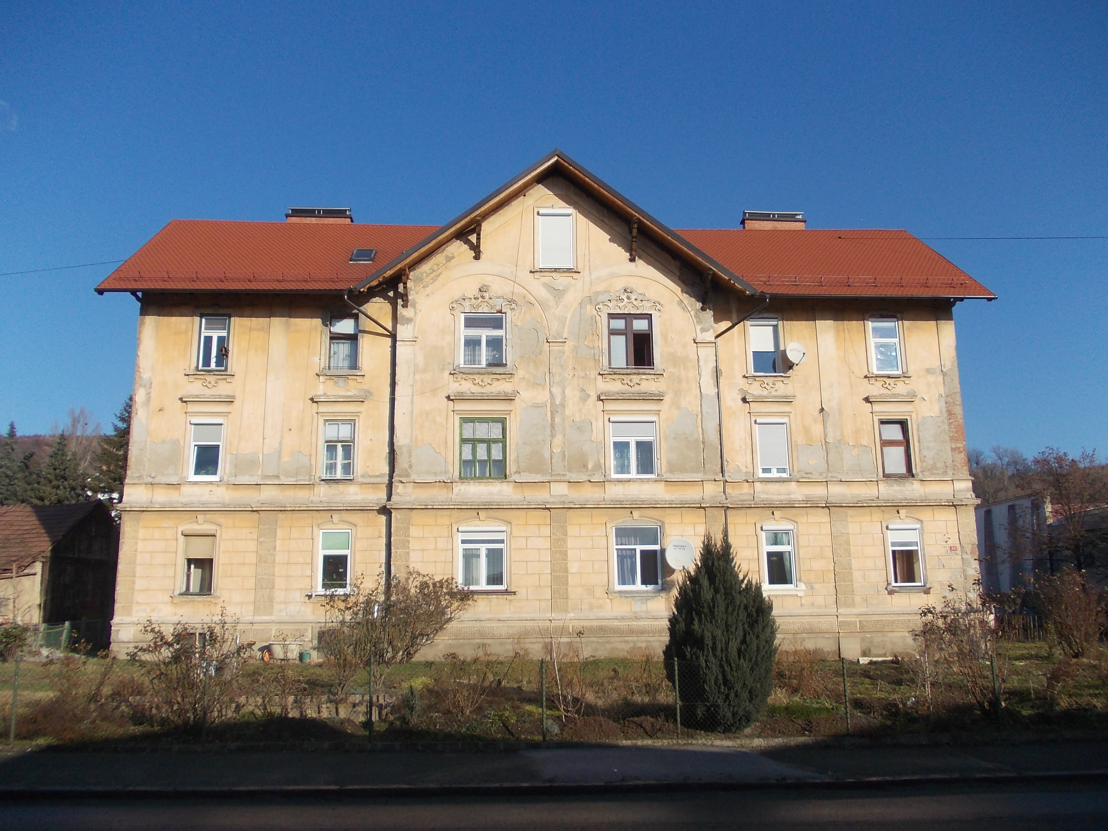 Birth house of Andrej Majcen, Melje, Maribor